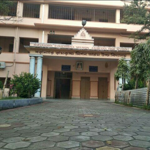 Main entrance of secondary section of Baranagar RKM School